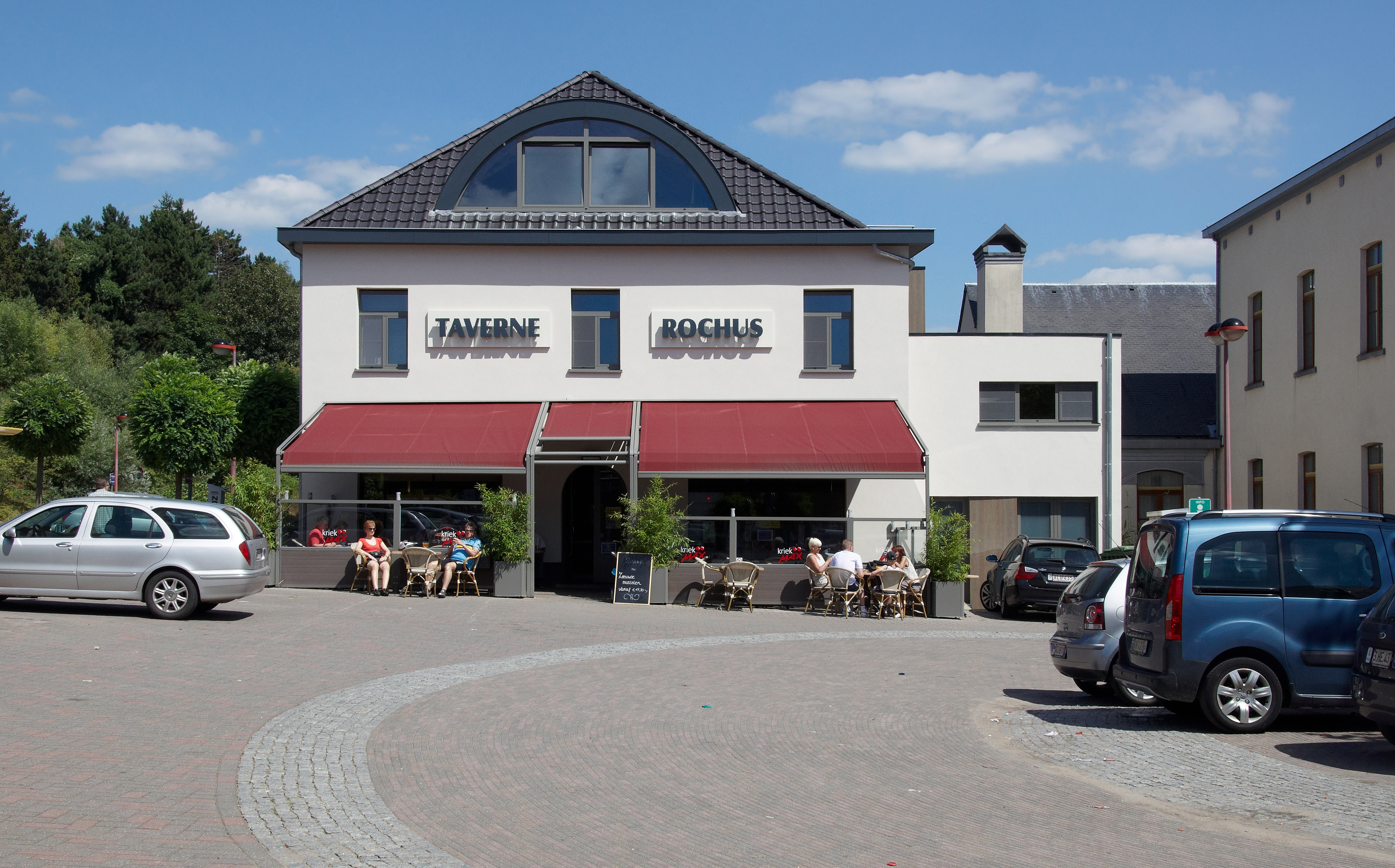 A tavern in Huldenberg, Belgium